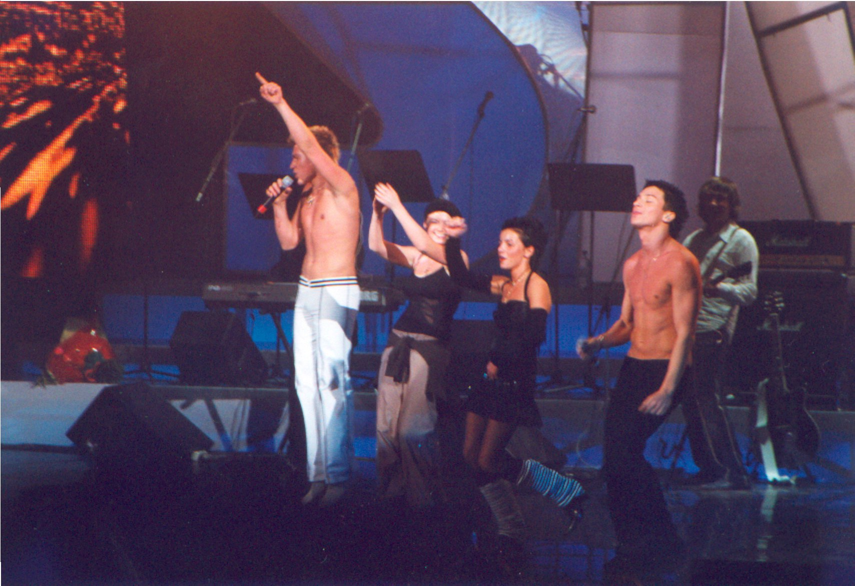 Smash!! and t.A.T.u. on stage at Smash!! concert (11.10.2003)